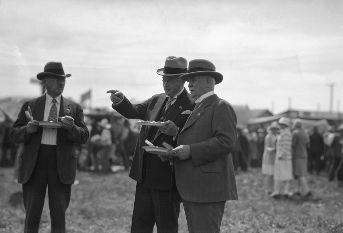 R.B. Bennett at the Calgary Exhibition and Stampede.